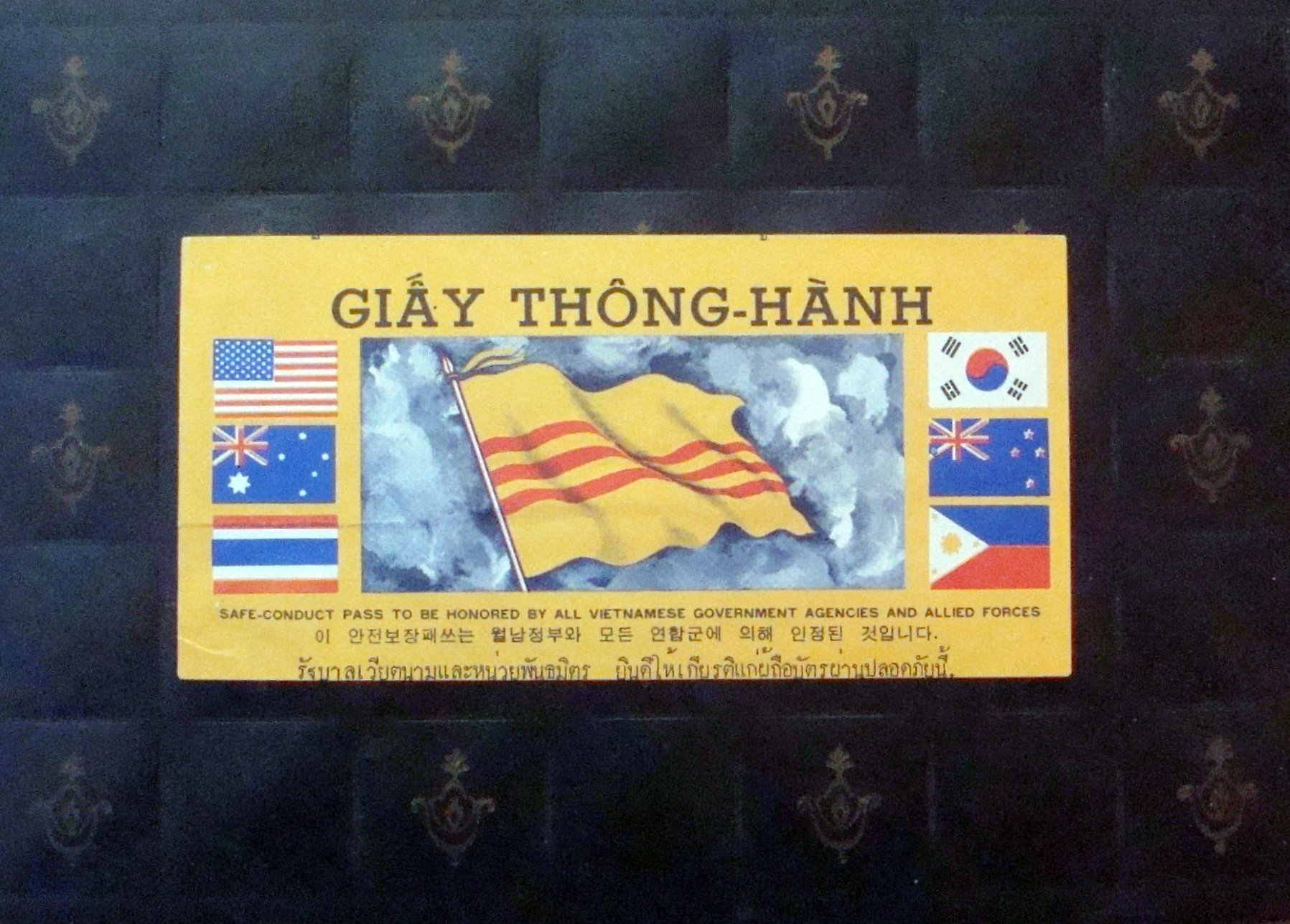 Chieu Hoi (safe conduct) pass Original scan of United States joint military services leaflet. I have possessed the original since 1969 when it was one of many thousand that I distributed throughout the country of Vietnam.